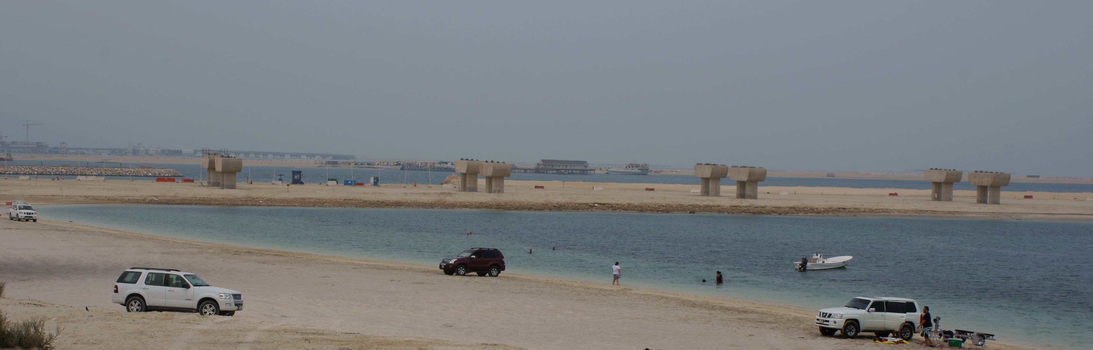 Road construction on the "trunk" (background) and the crescent (front) of Palm Jebel Ali in Dubai.